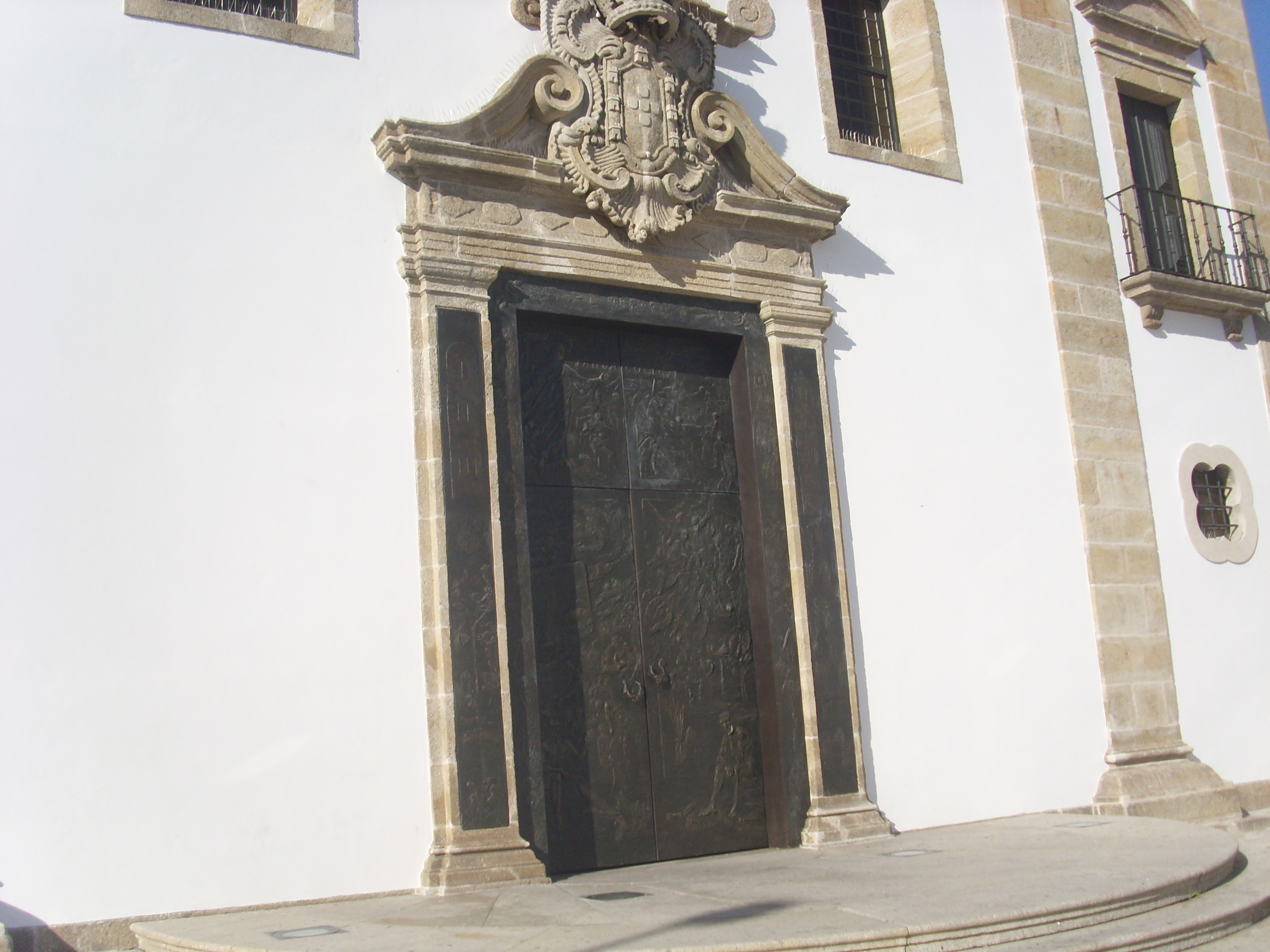 Main Doors of the Matriz Church of Póvoa de Varzim